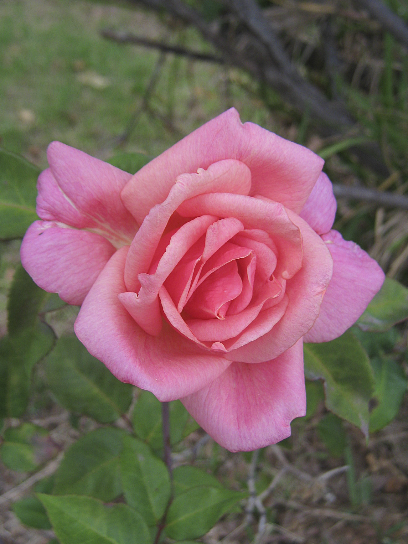 Rose 'Lorraine Lee', Hybrid Gigantea by Alister Clark 1924; Photographed in St Kilda, Victoria